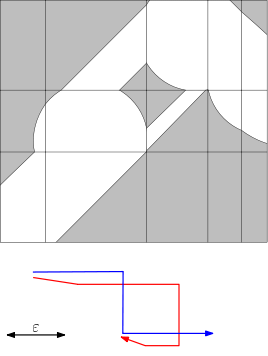 Free-space diagram of for the red and the blue curve, a tool for calculating the Fréchet distance between two curves. (In contrast to the a different common definition, which uses the parameter interval [0,1] for both curves, the curves are parameterized by arc length in this example.)